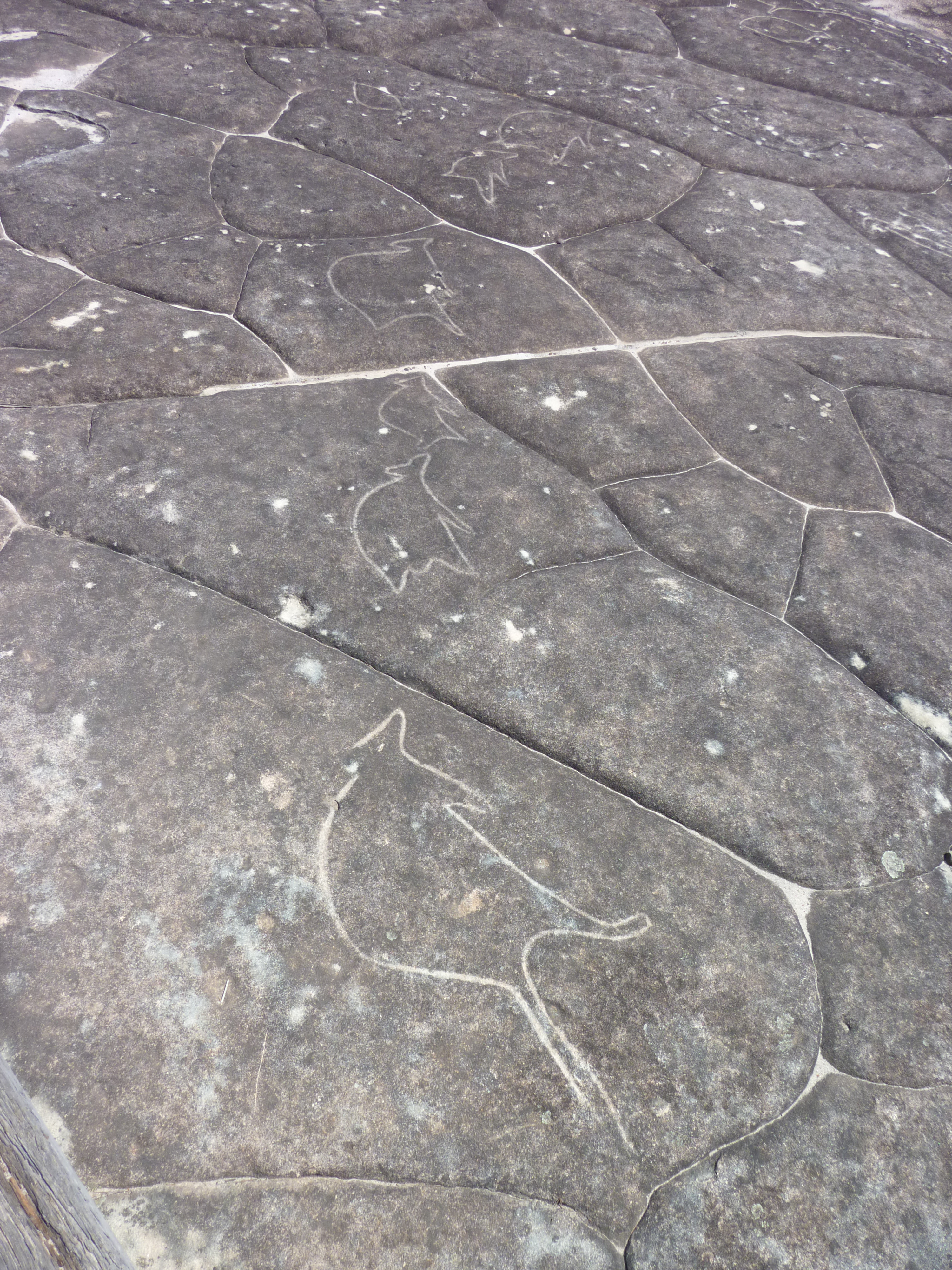 Basin Track, Aboriginal Art Site, group 4, Ku-Ring-Gai Chase National Park, Sydney, Australia